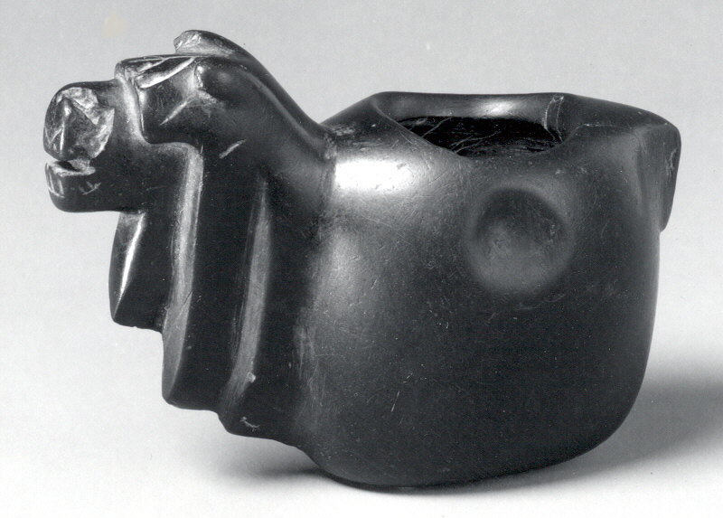 Date: 15th–16th century Geography: Peru Culture: Inca Medium: Stone Dimensions: H. 2 1/2 × W. 1 3/4 × D. 3 3/4 in. (6.4 × 4.4 × 9.5 cm) Classification: Stone-Containers Credit Line: Gift of William Kelly Simpson in memory of the Honorable Nelson A. Rockefeller, 1984 Accession Number: 1984.524.1